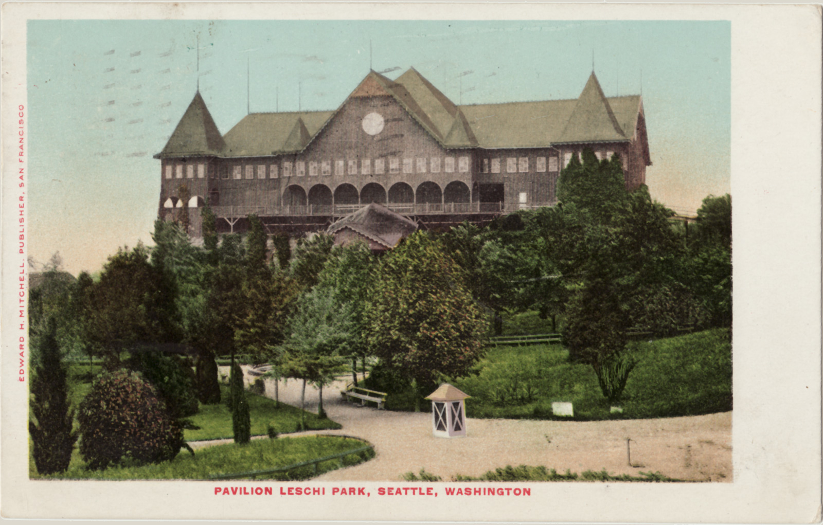 Leschi Park Pavilion, Seattle, Washington, 1905. Demolished 1930.